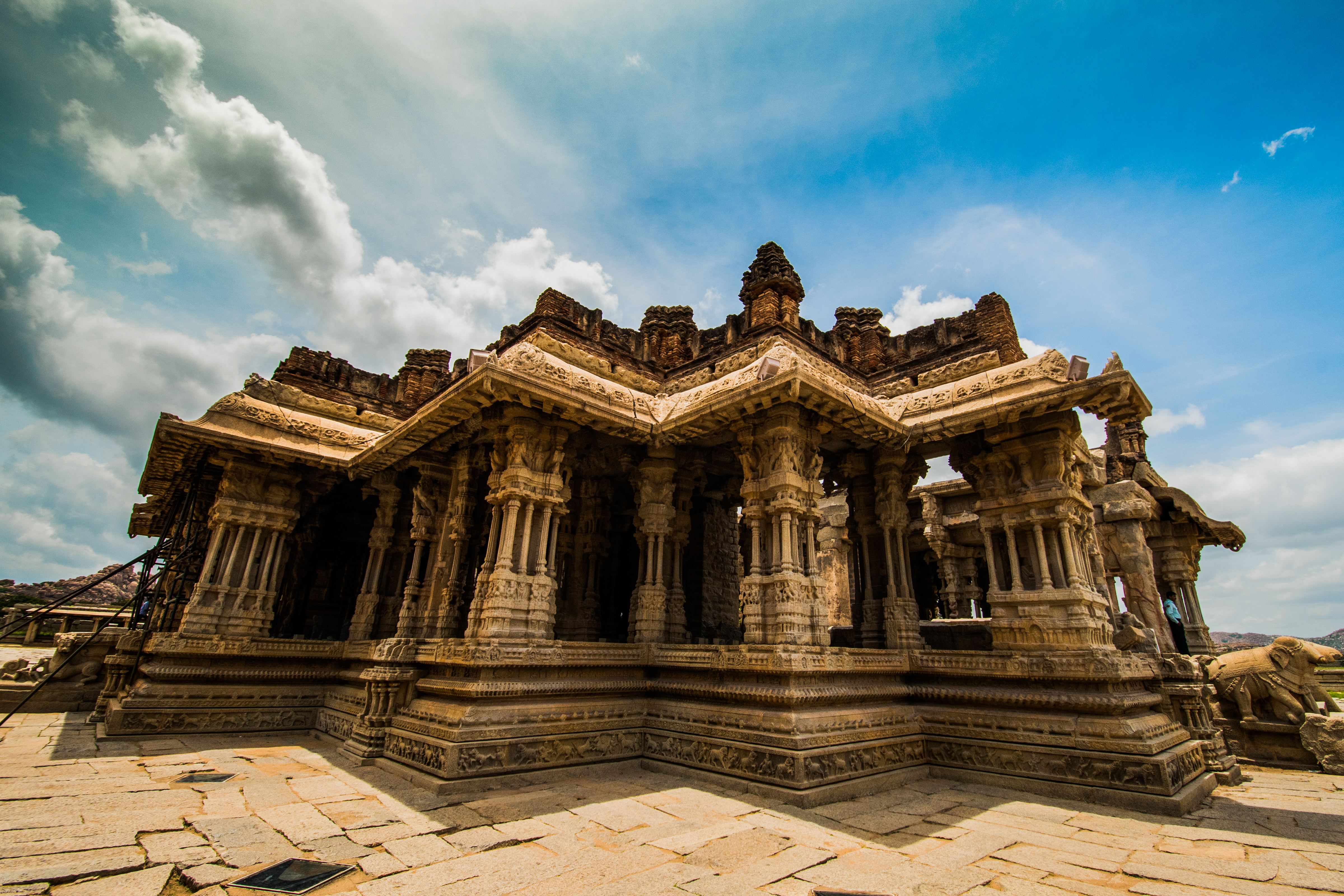 Vittala temple complex: i)Vittala Temple